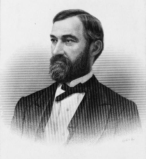 Bv't. Brig. Gen. D.C. Littlejohn, head-and-shoulders portrait, facing left